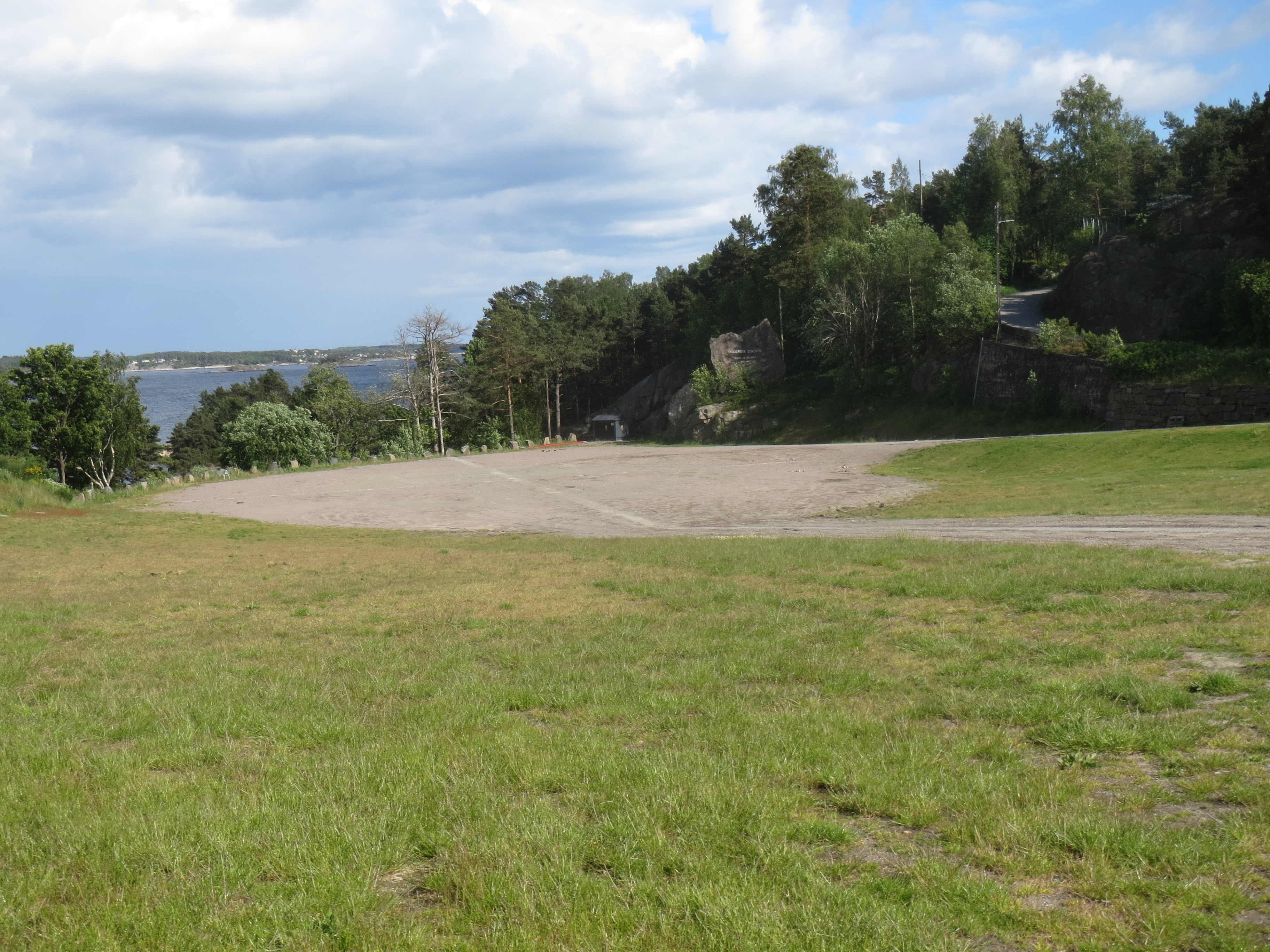 Odderøya Amfi, festival location